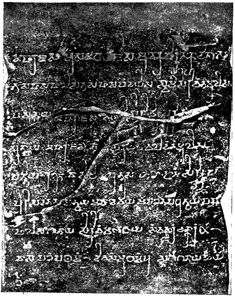 Nagarjunakonda Ayaka pillar inscription of the time of Rudra-Purushadatta